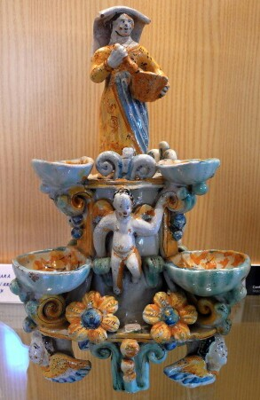 Ancient majolica artwork in the Civic Museum of Ceramics of Ariano Irpino, Italy